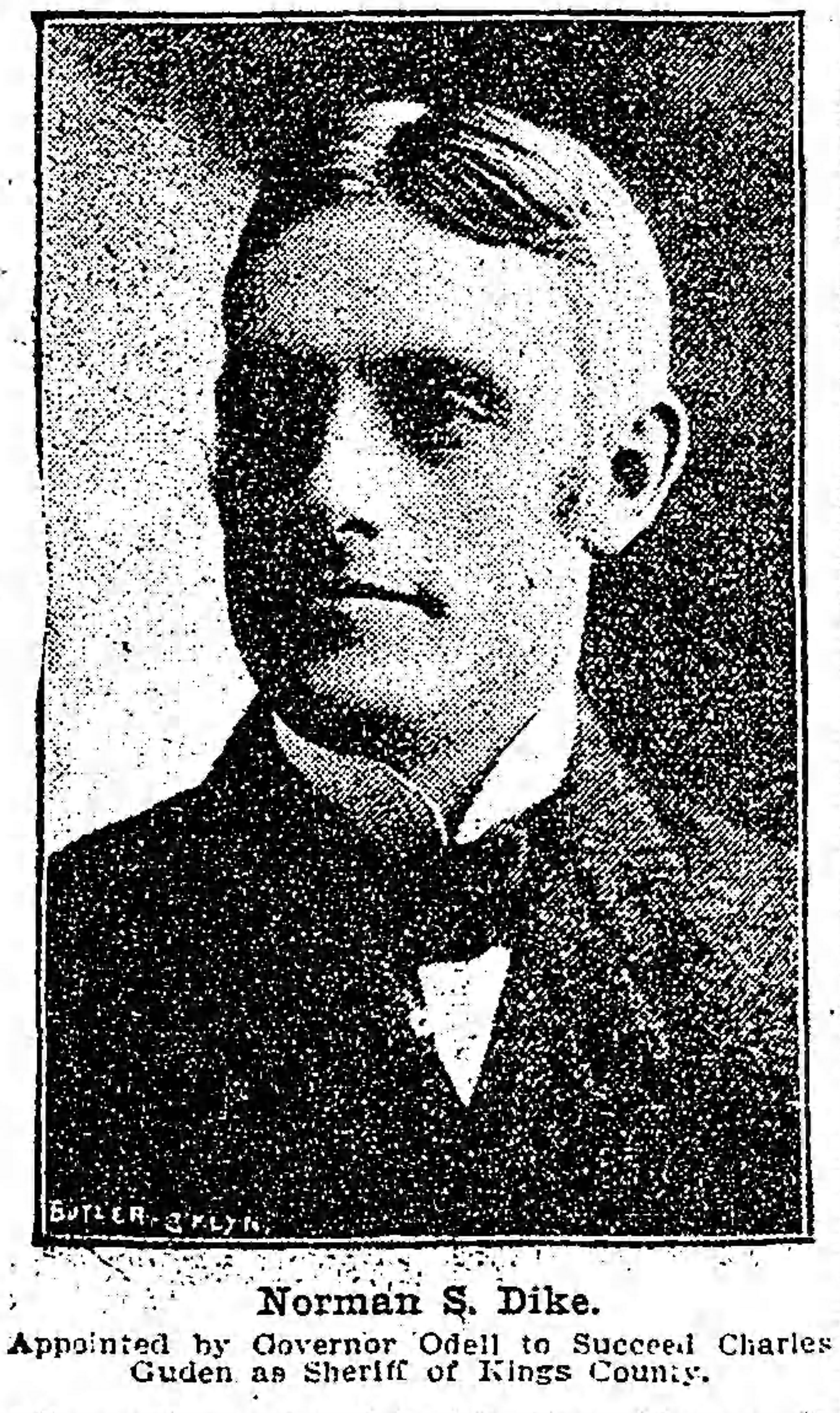 Norman Dike in 1902